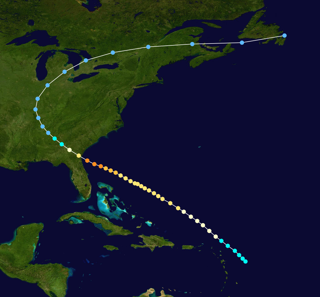 1898 Atlantic hurricane 7 track.png track. Uses the color scheme from the Saffir-Simpson Hurricane Scale.